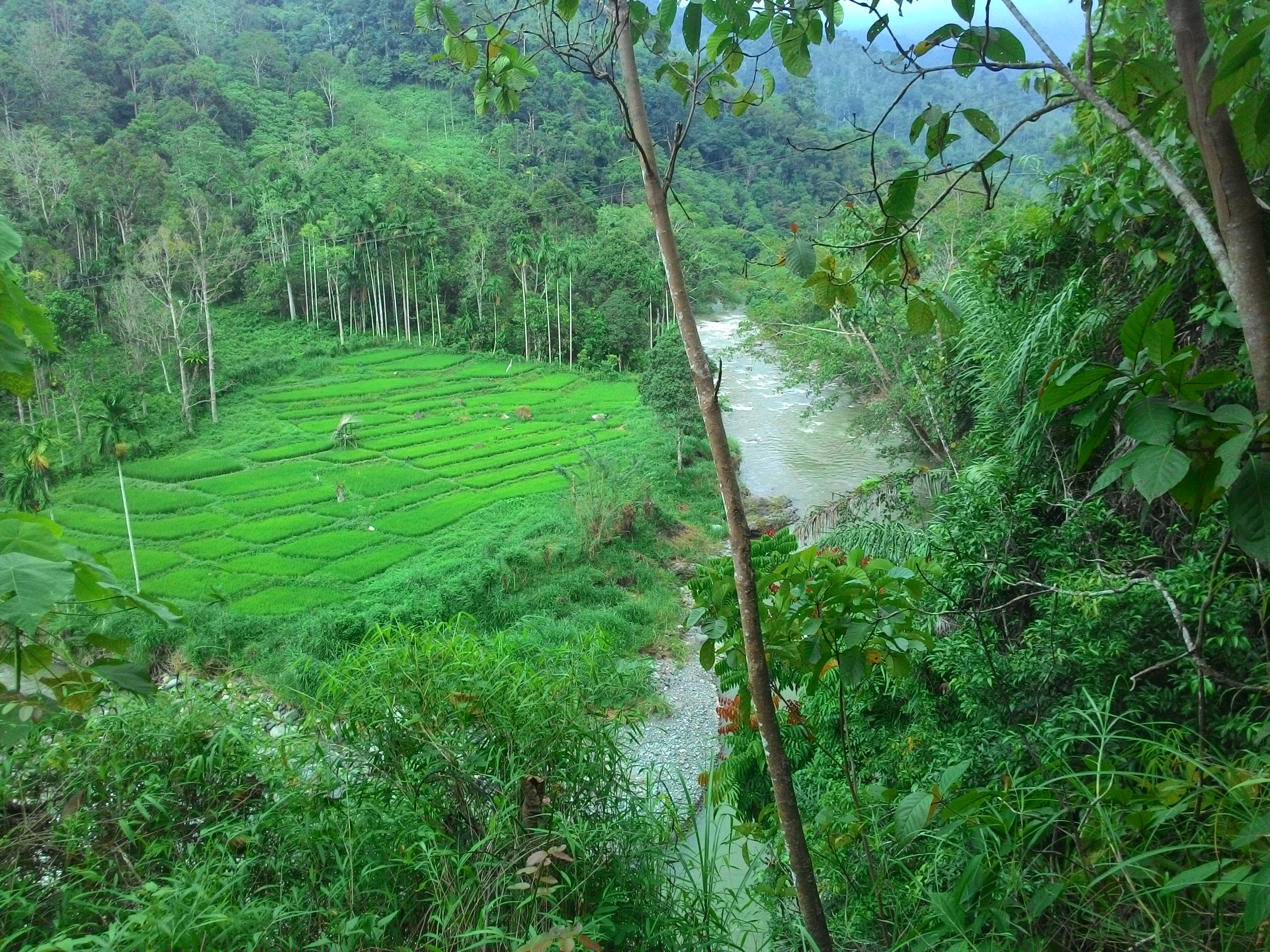 Rice field in Tangse, Pidie, Aceh, Indonesia